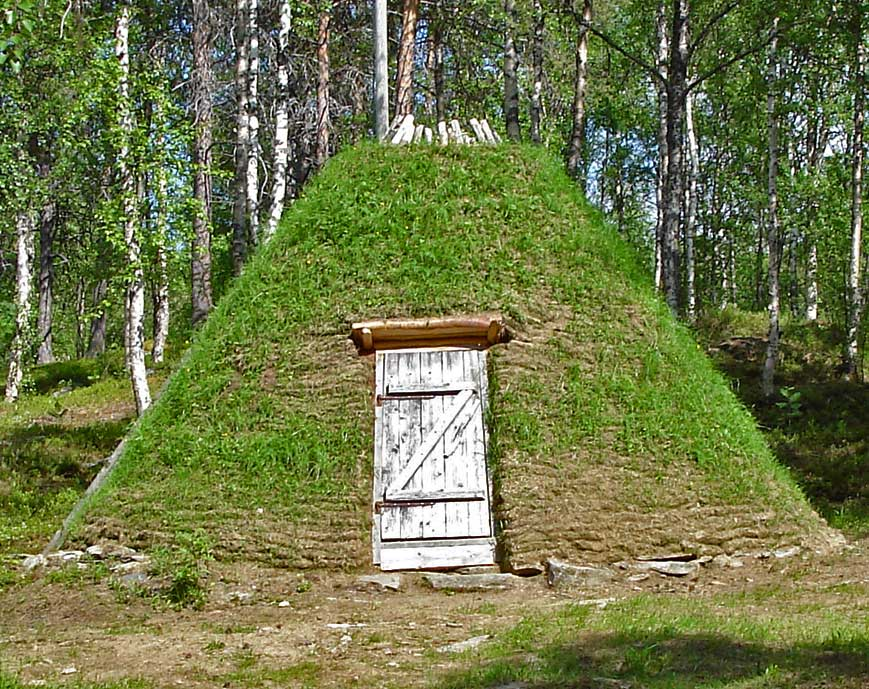 Newly built Sami peat hut, northern style, in Ammarnäs, Sweden.